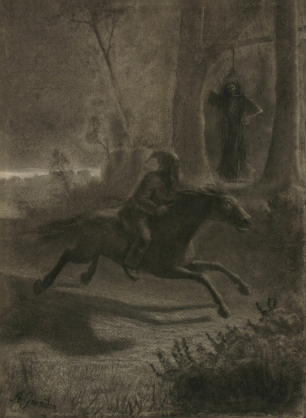 La Corriveau, in her iron cage, terrifying a traveller riding a horse.